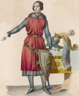 Joanna of Flanders.